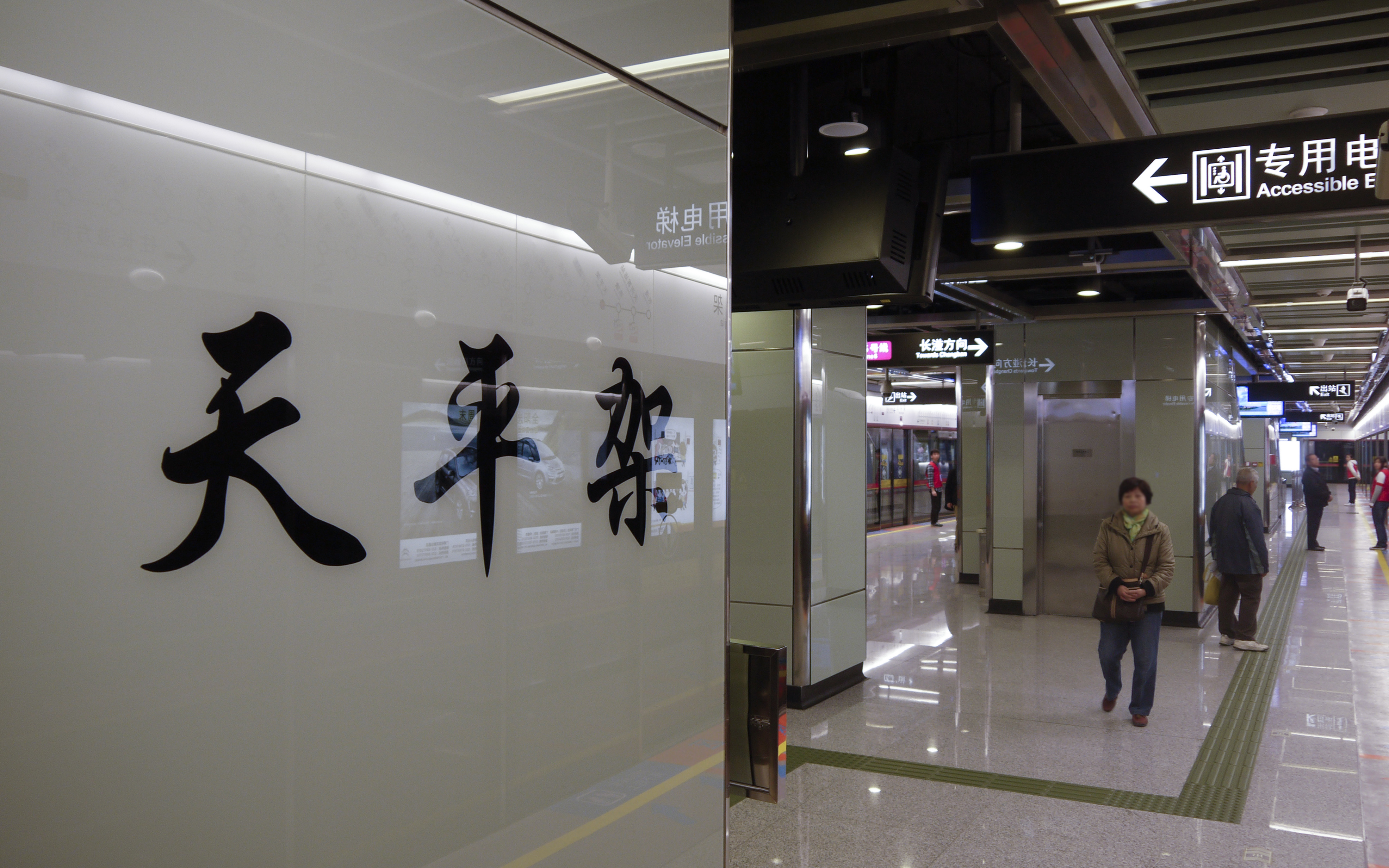 TIAN PING JIA STA.